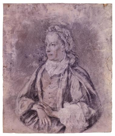 Elizabeth Vesey (1715-1791) was an important member of the Bluestockings, a loose-knit group of society women who hosted informal gatherings for literary and political discussions.